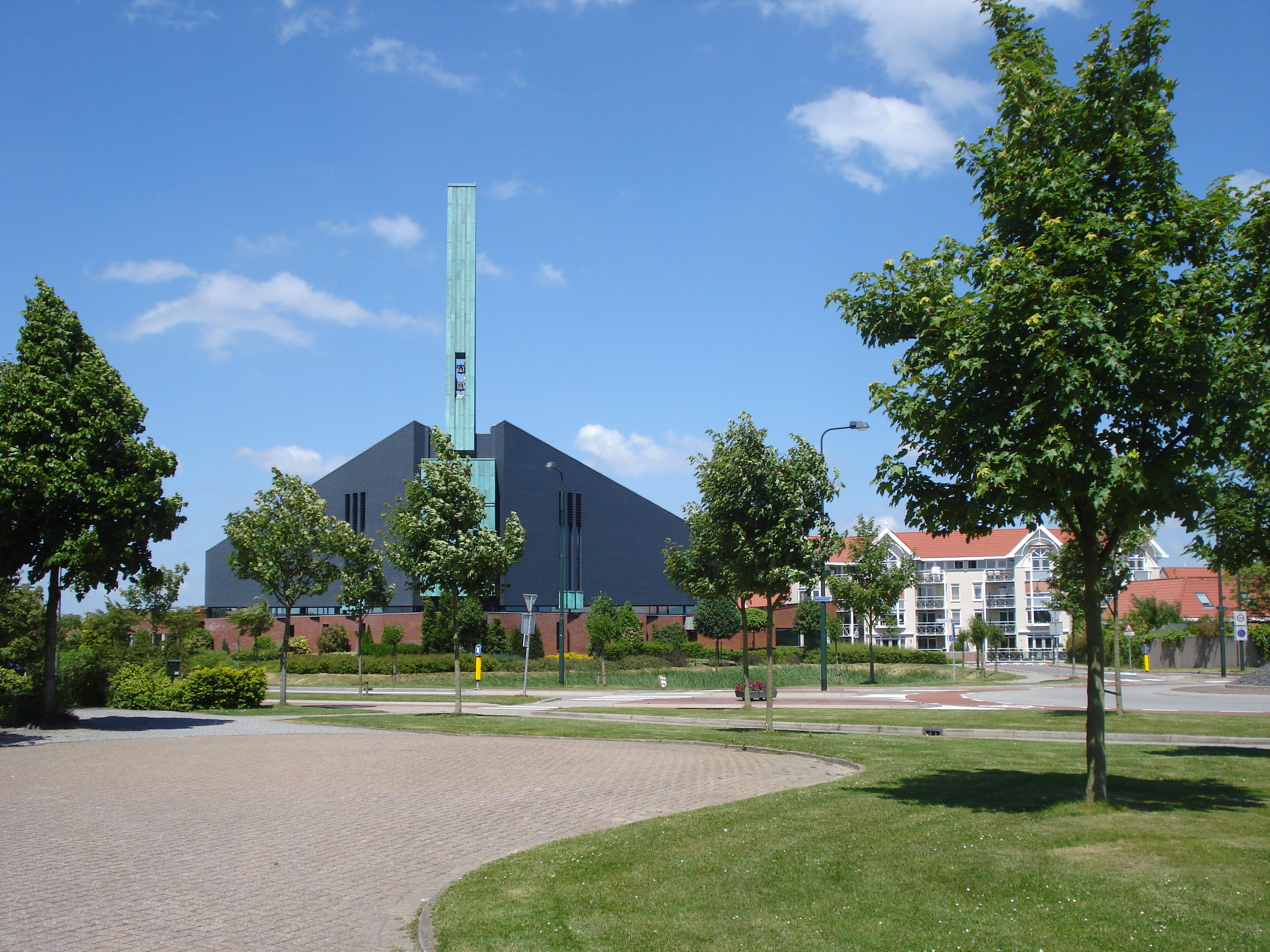 Gereformeerde Gemeente te Tholen